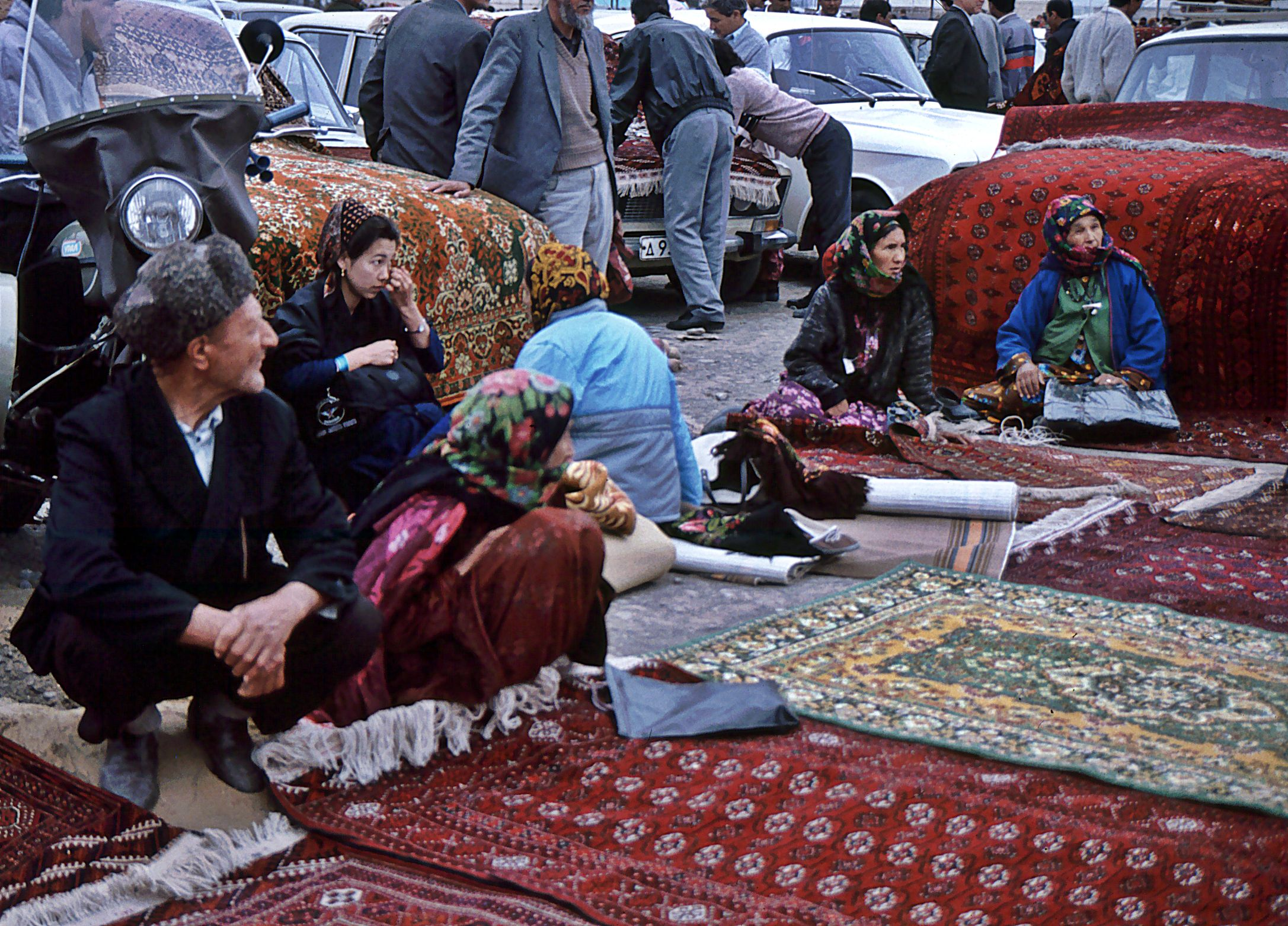 Mary, Markt